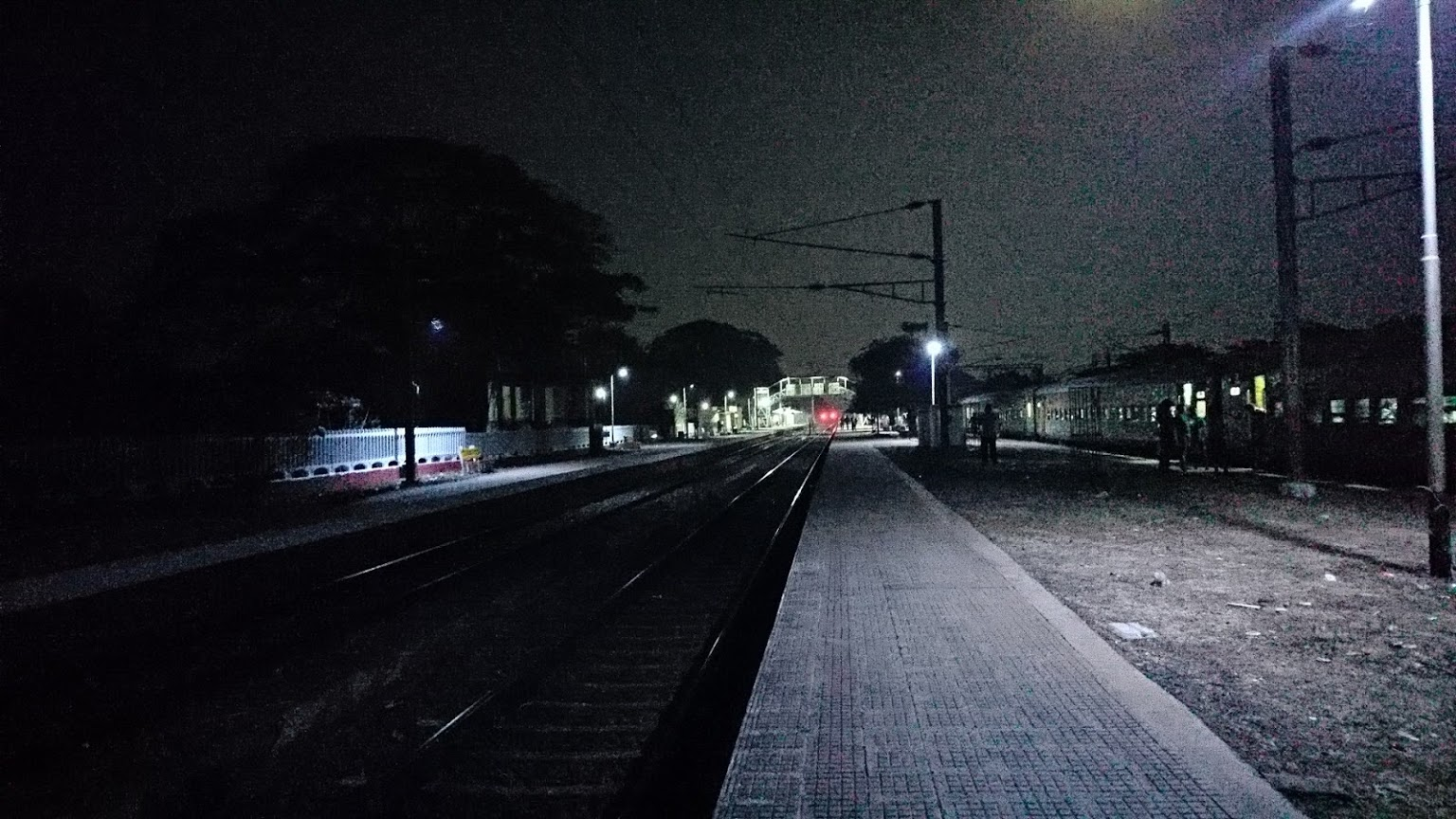 This is the Picture of Kalupara Ghat railway station